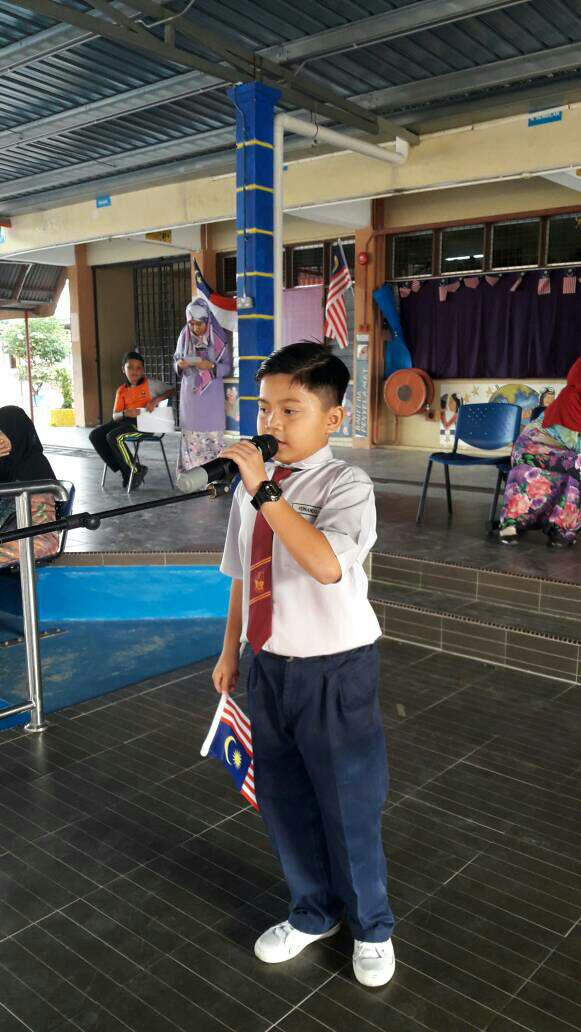 Murid Tahun 4